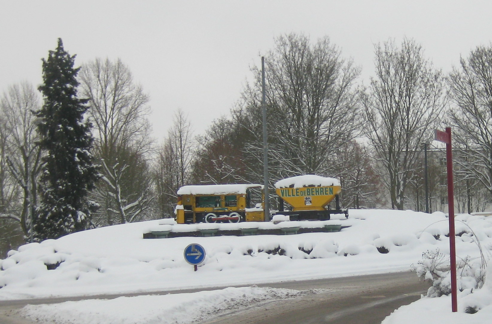 Behren